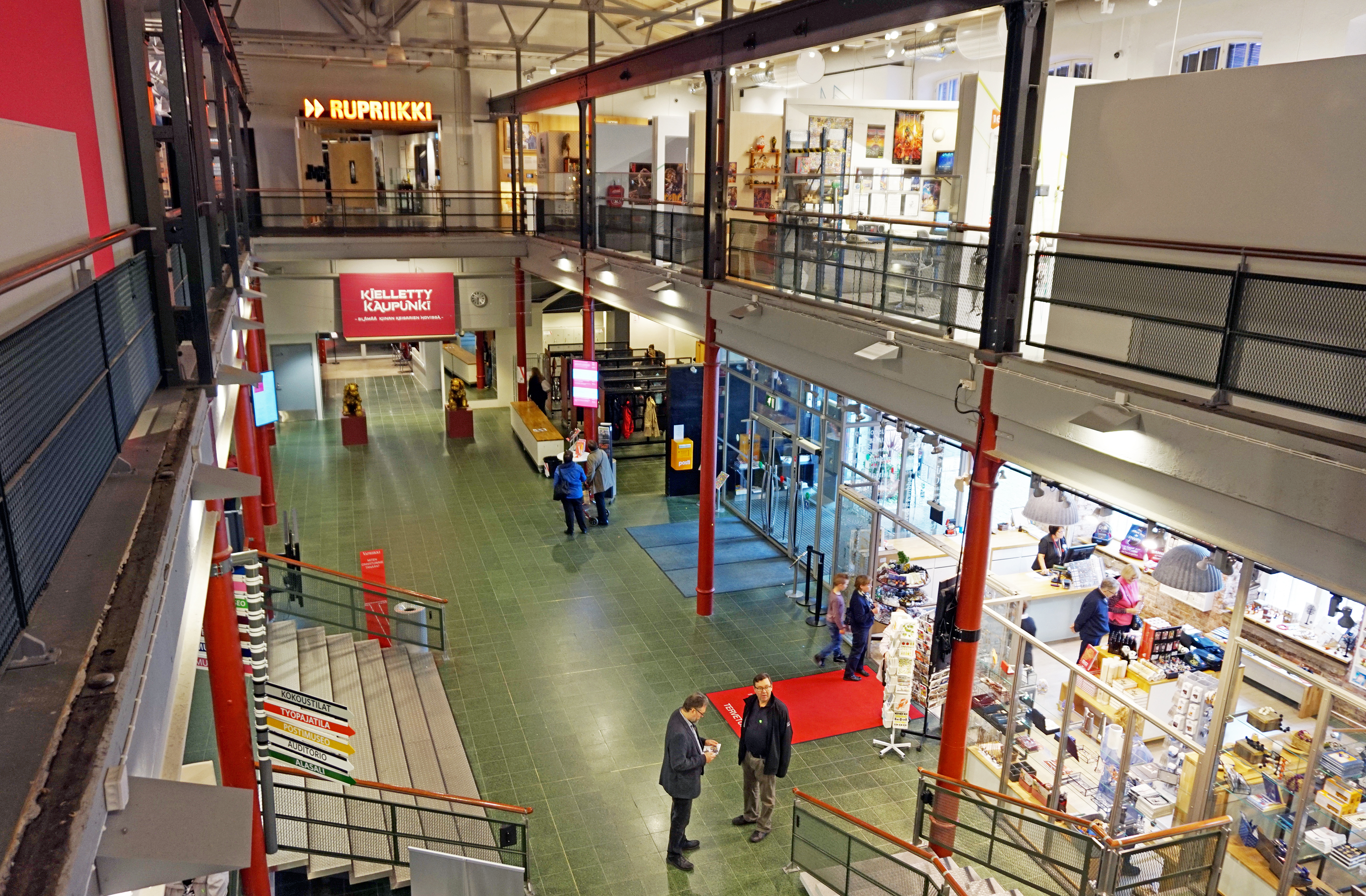 Vapriikki Museum Center, Tampere.